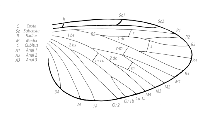 A insect wing. Schematic, showing the main veins. Diptera.